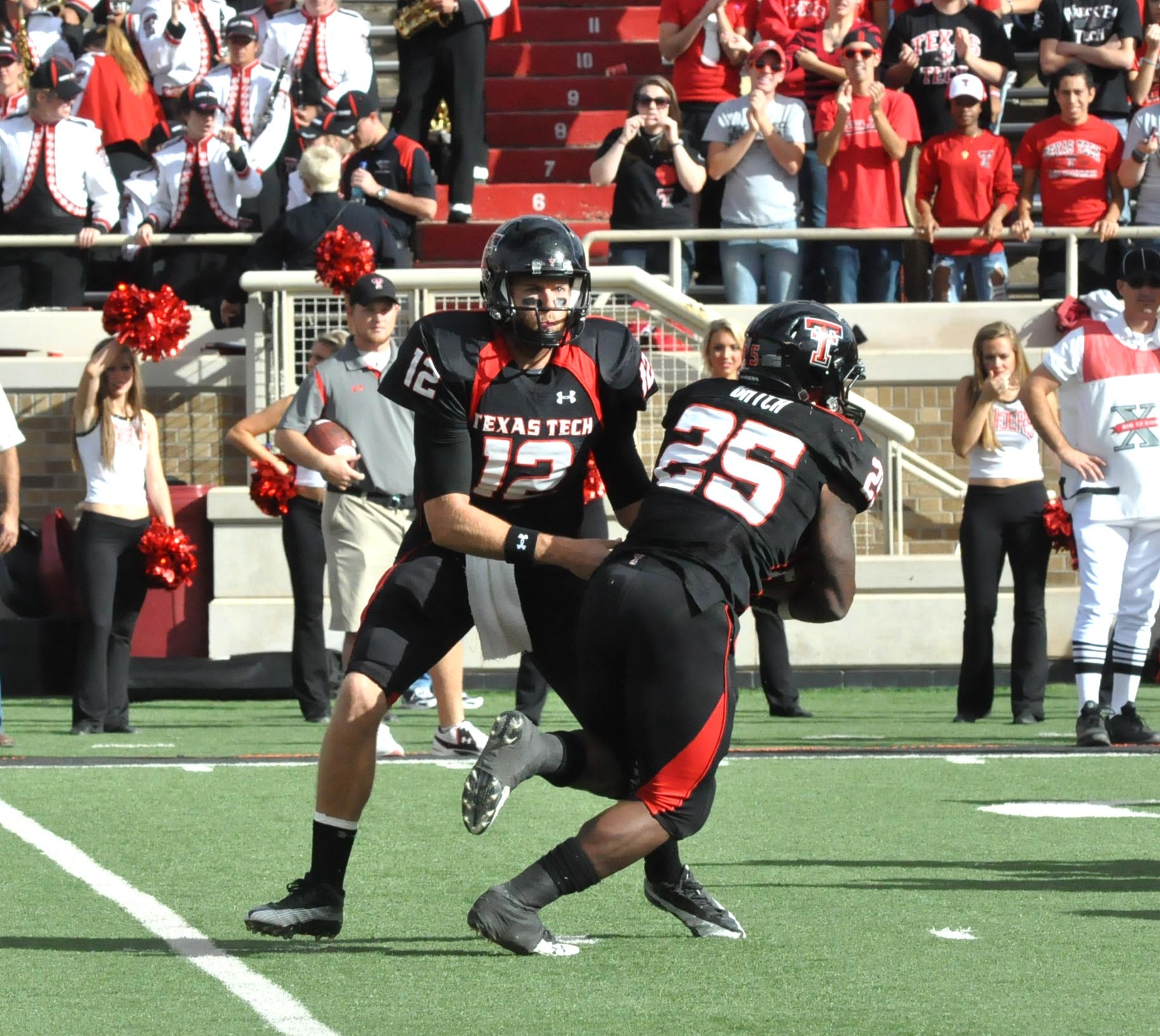 Taylor Potts hands off to running back Baron Batch during Texas Tech's win over Weber State during the 2010 season.